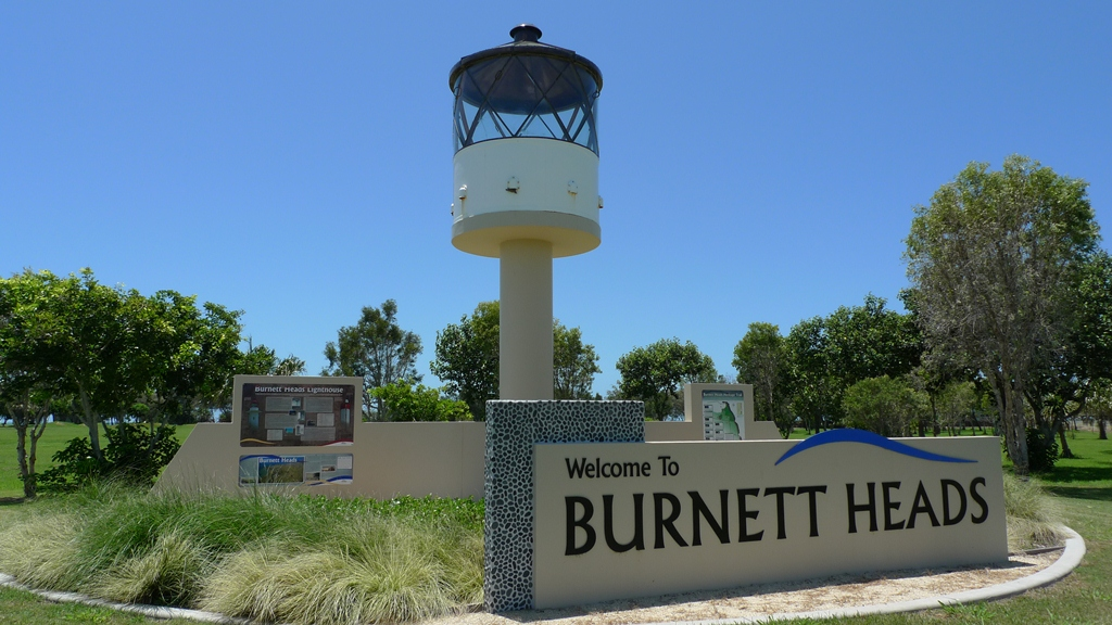 Welcome